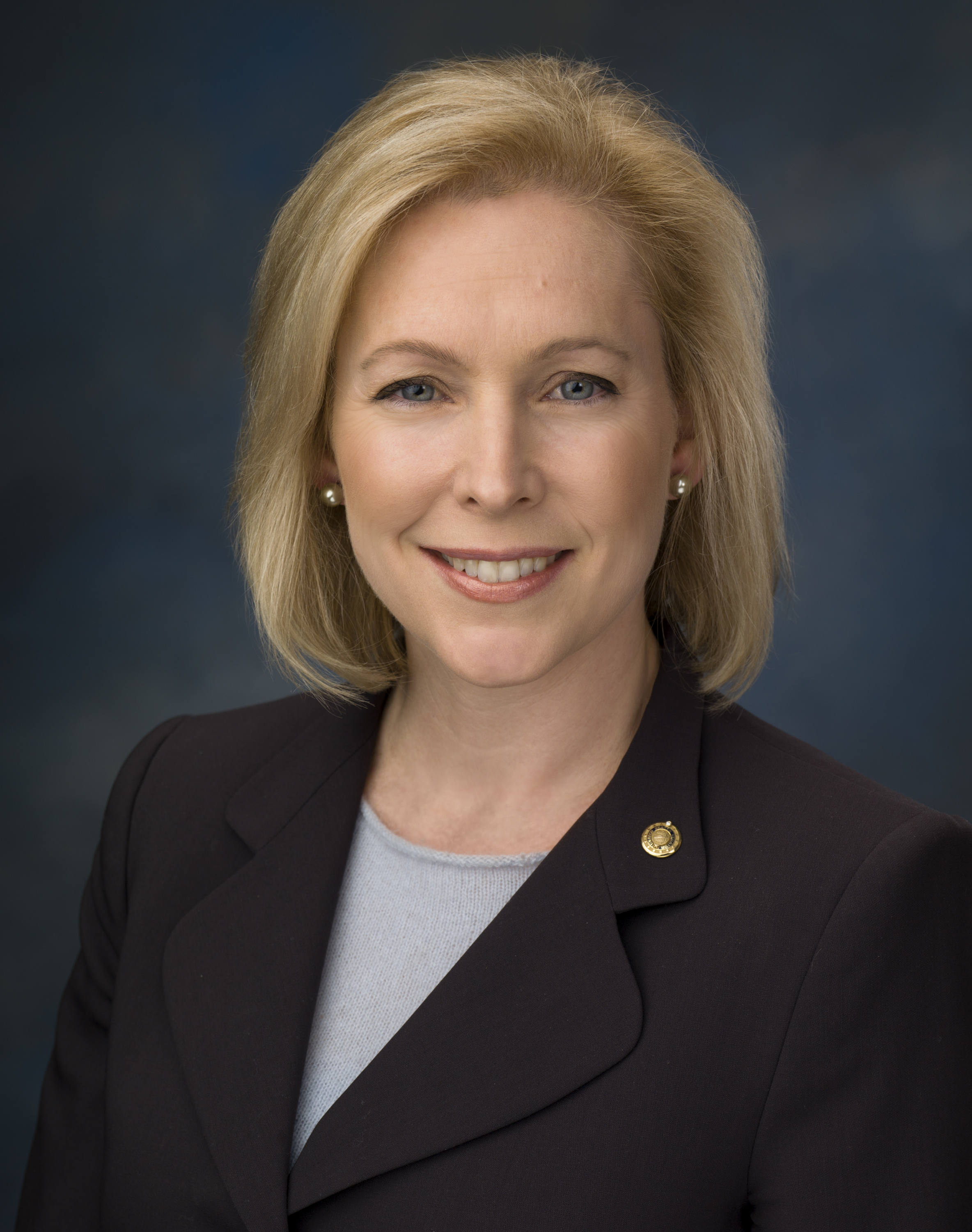 Kirsten Gillibrand, New York's junior United States Senator